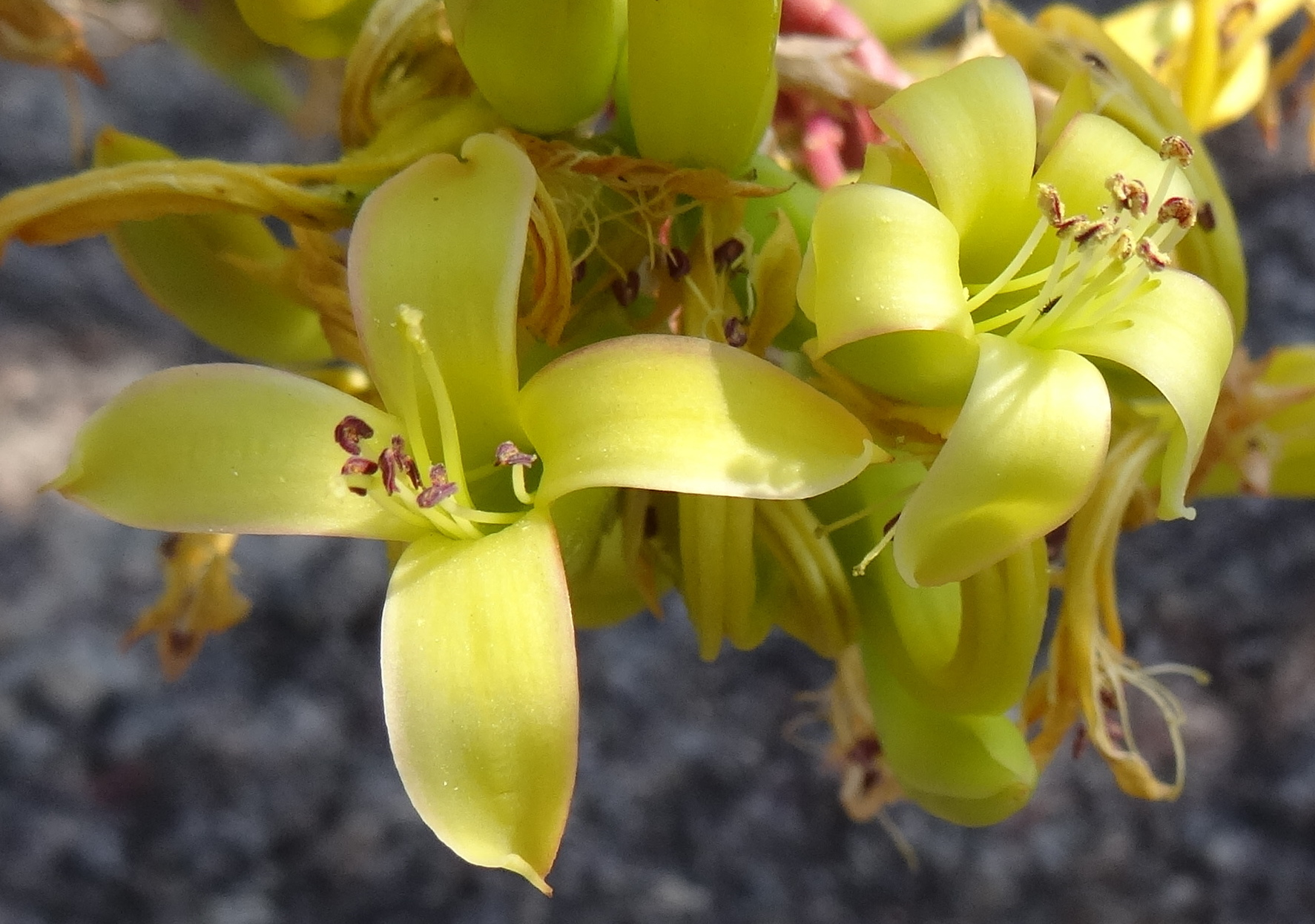 On Mount Ribaue, Northern Mozambique.